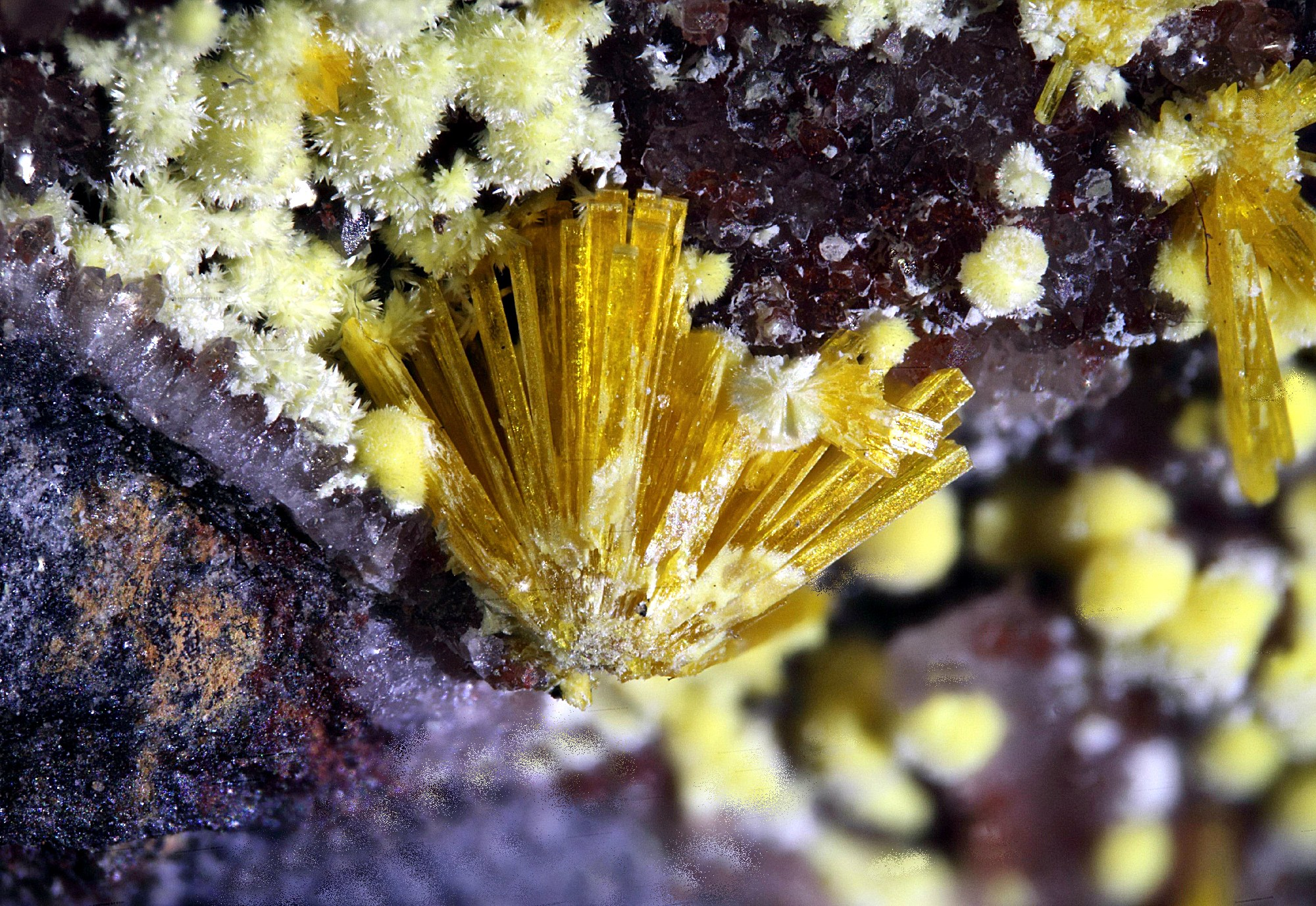 Uranophane-alpha (light yellow radiating spheres) and Uranophane-beta (dark yellow, fan-like, thick needles) on Granite from Miedzianka in Krkonoše near Janowice Wielkie in Poland (Width: 11,5 mm)